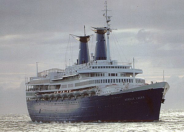 Achille Lauro